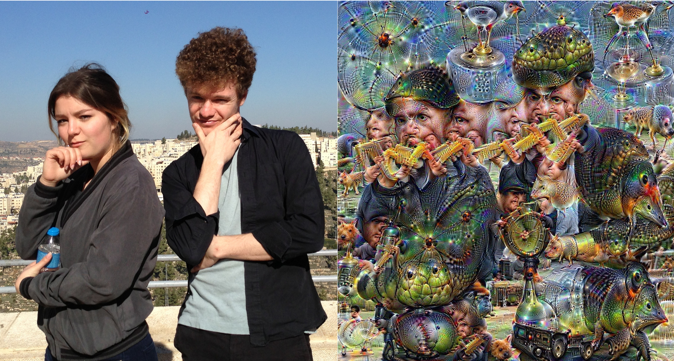 an image undergoing "DeepDreaming" processing